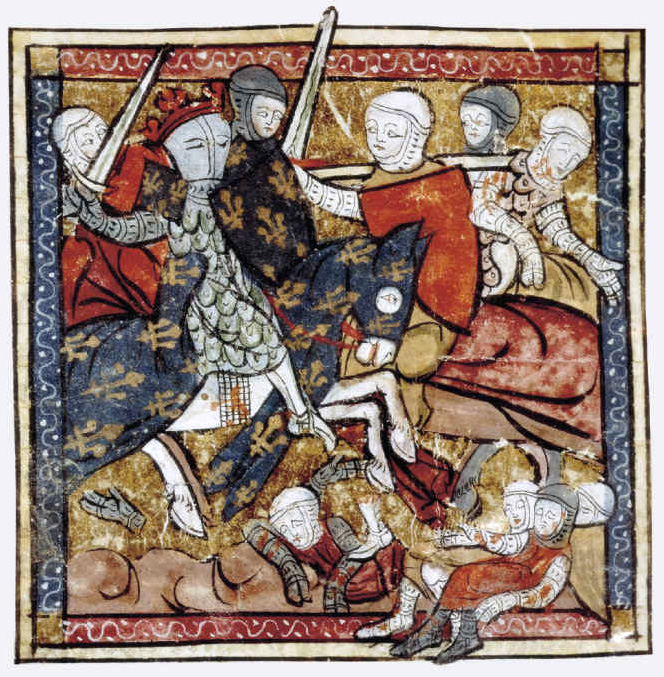 Battle of Bouvines.